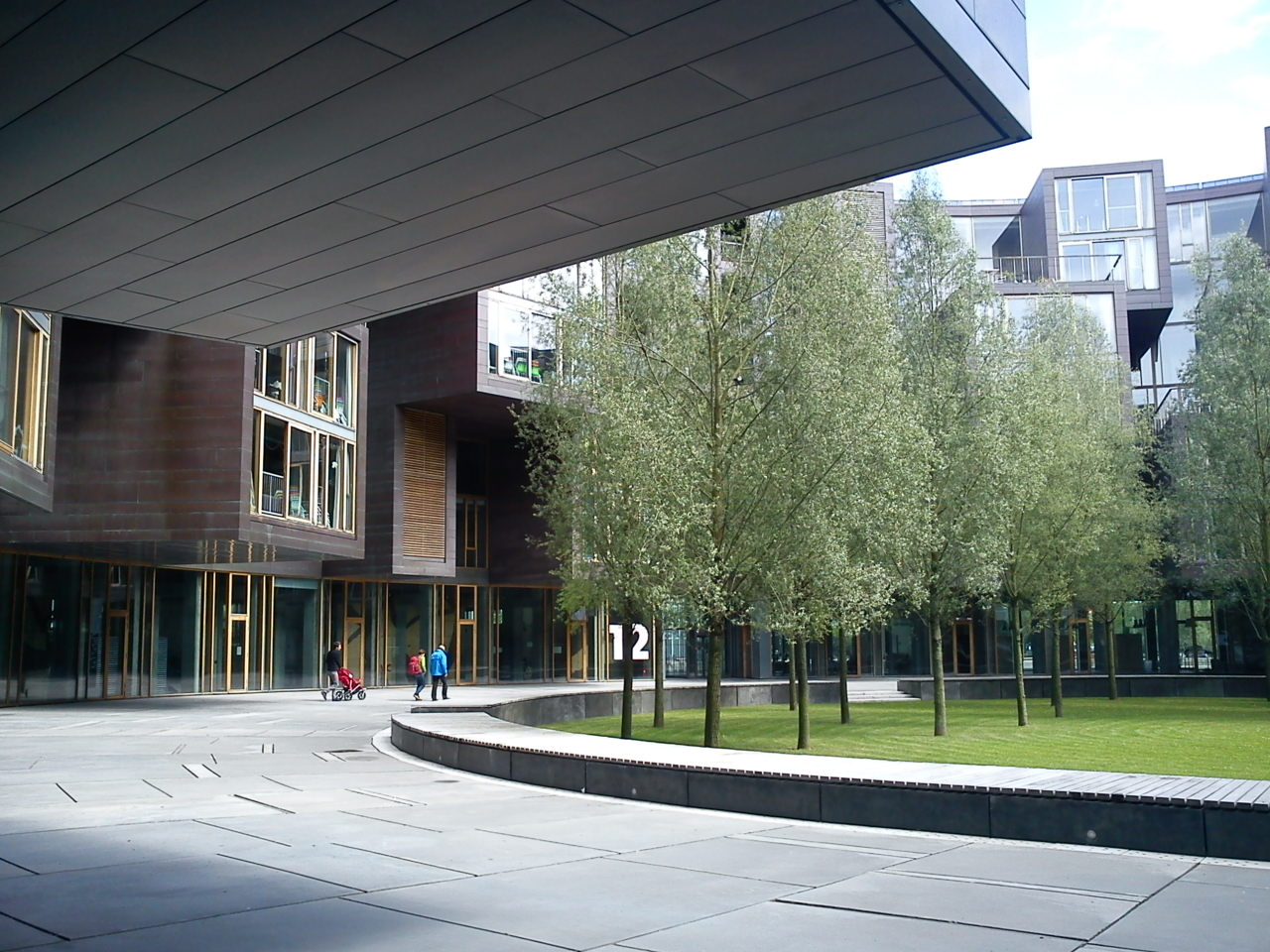 Tietgenkollegiet